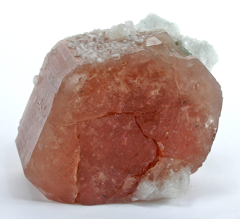 Apatite Locality: Shengus (Shingus), Haramosh Mts., Skardu District, Baltistan, Northern Areas, Pakistan (Locality at ) Size: miniature, 4.1 x 3.9 x 2.9 cm Apatite This is a very unusual apatite specimen from a new find in the area, not to be confused with the typical Pakistani apatites from Chumar Bakhoor. This piece has a unique rich maroon-pink color that is apparently characteristic of this pocket, flanked by a few sprays of attached white cleavelandite matrix. The apatite is almost complete all around, with just one of the smaller edges on one side only, showing a break; and can be displayed in several orientations. The backside is complete as well - it is almost a floater. Certainly it is complete on the display face. The color in person is to my eye exact with the monitor...a much redder hue of apatite than we are used to seeing from Pakistan with deep color, not pastel at all.